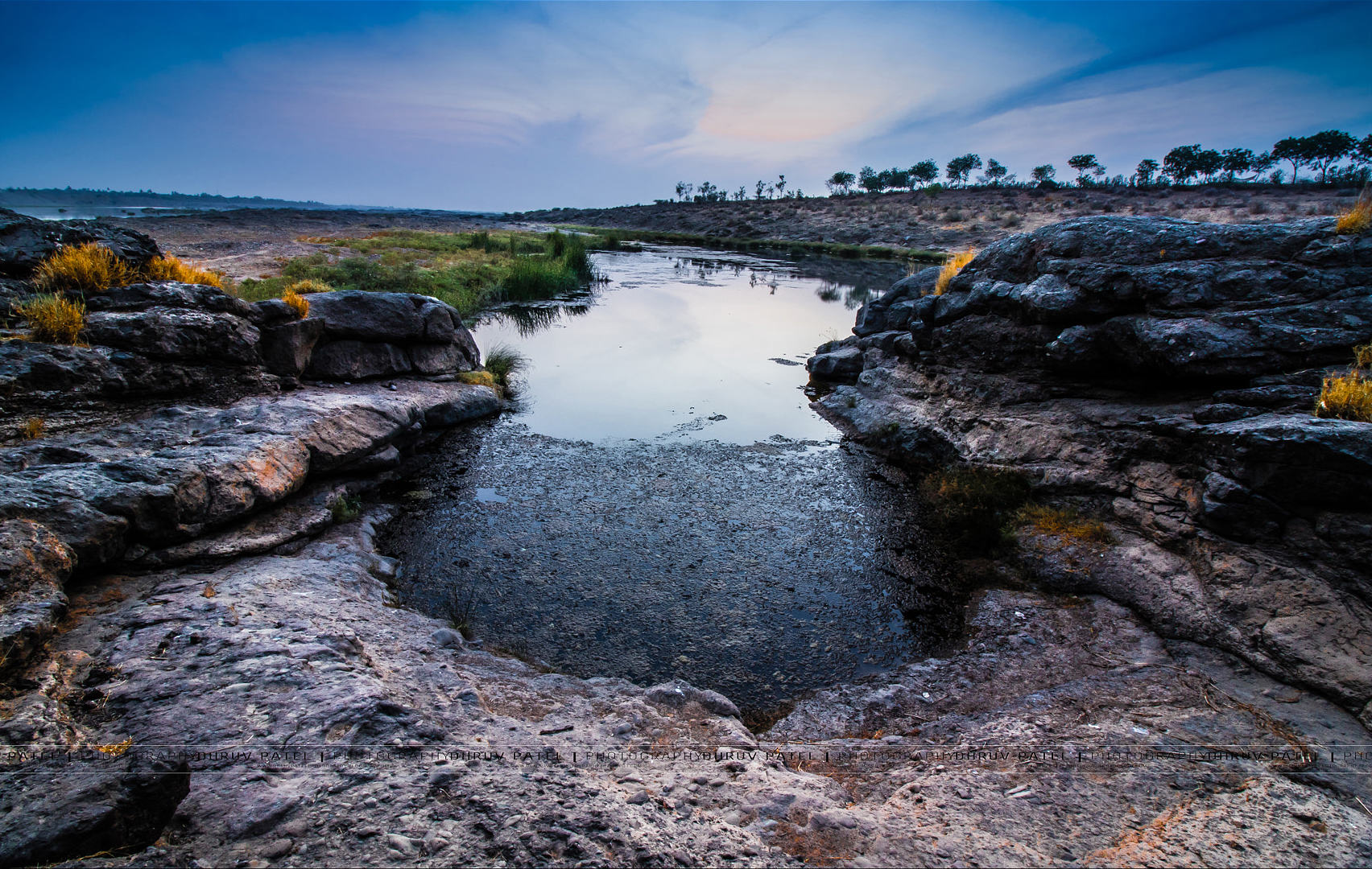 500px provided description: * After the Dusk * Exif Details: F-Stop: f/22 #?clouds? ? ,#?photography? ? ,#?landscape? ? ,#?sky? ? ,#?summer? ? ,#?nature? ? ,#?earth? ,#?trees? ? ,#?beautiful? ? ,#?river? ? ,#nature ? ,#clouds ? ,#?incredible? ? ,#photography ? ,#?sundown? ? ,#?dusk? ? ,#?evening? ? ,#?warm? ? ,#?longexposure? ,#?gujarat? ? ,#?reflection? ,#?mothernature? ? ,#?afterthedusk? ? ,#?mahi? ? ,#?endofday? ? ,#?save?]